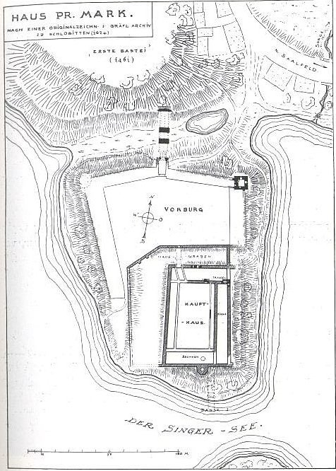 Przezmark Castle, Plan